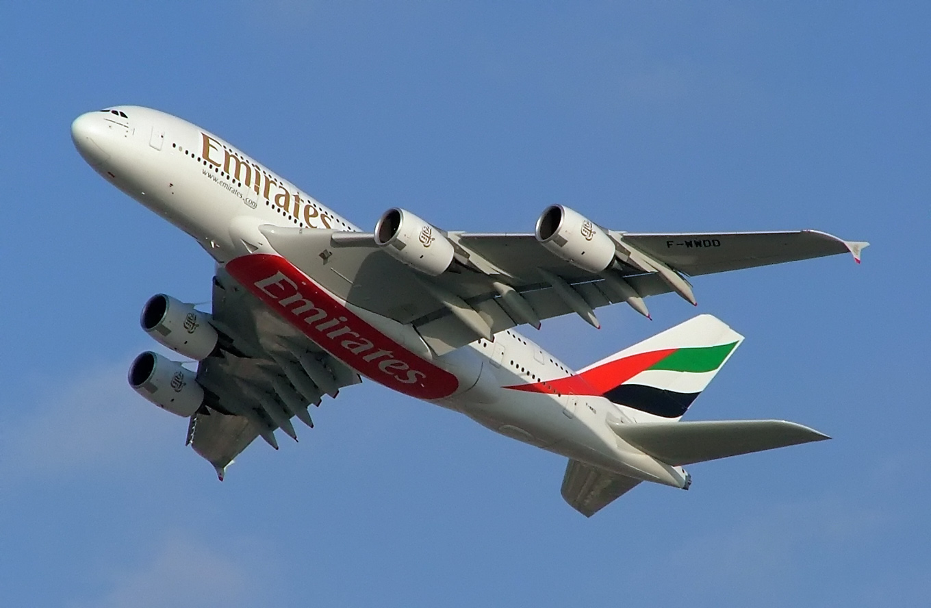 The new Airbus A380 painted in full Emirates Airlines Colors, photographed at the 2005 Dubai Airshow.